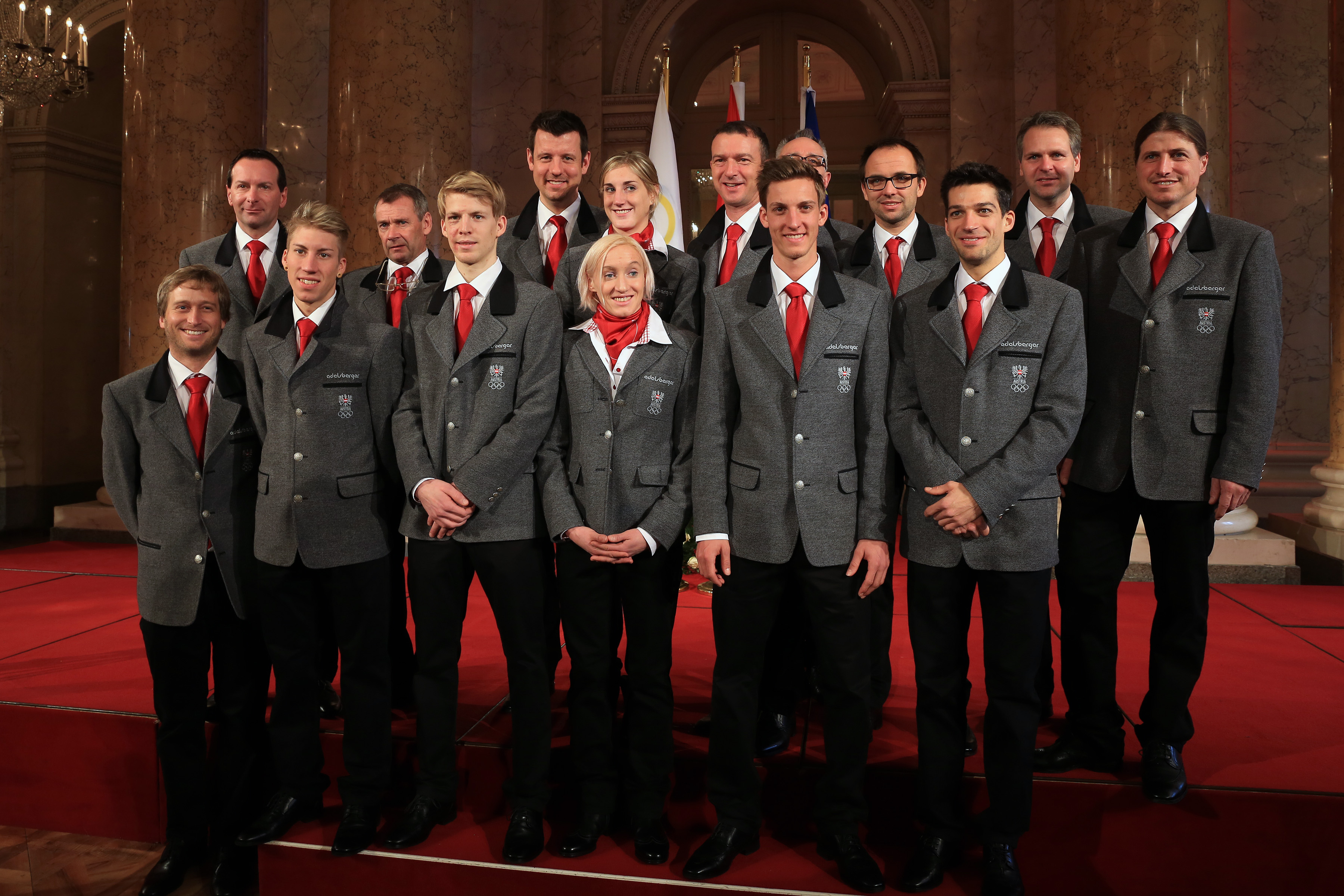 Athletes of the Austrian team for the 2014 Winter Olympics - Ski jumping: Thomas Diethart, Michael Hayböck, Daniela Iraschko-Stolz, Andreas Kofler, Gregor Schlierenzauer and support team; group picture taken at Hofburg Palace in Vienna, Austria.